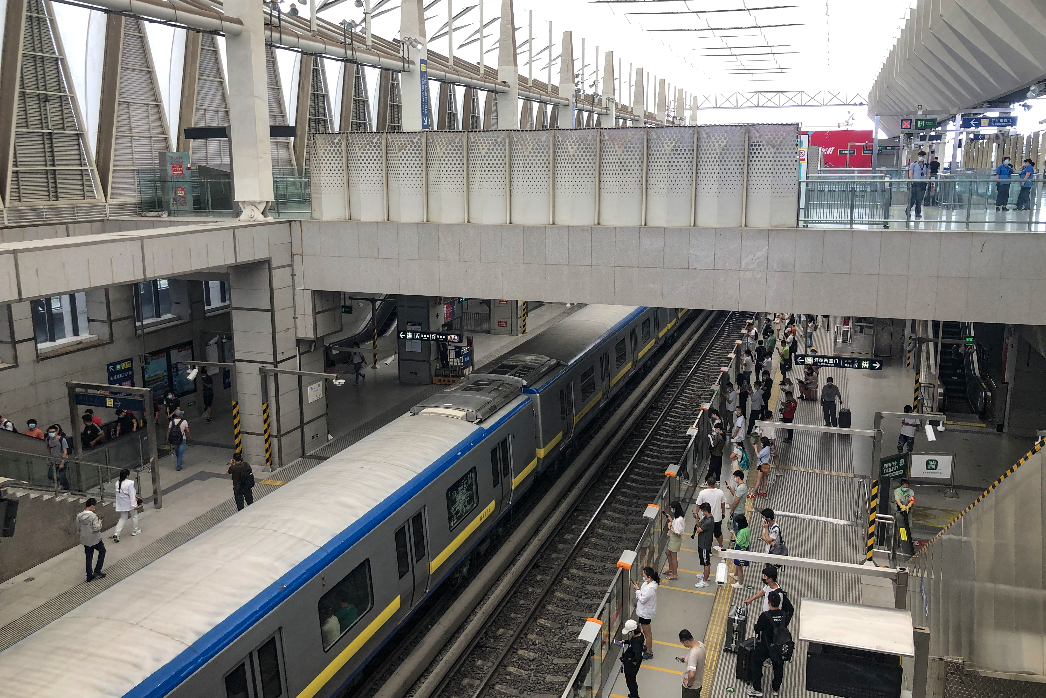 Familiar? Yep, the "Takanawa Gateway" - I think this station can also be nicknamed "Xi'erqi Gateway Station", for most passengers using this station are coders working at Z-Park.